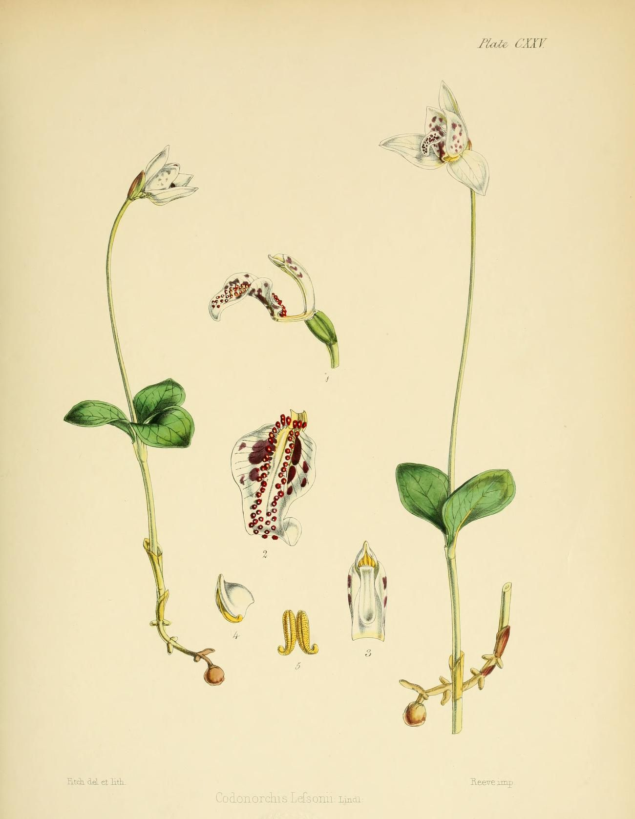 jpg of Plate CXXV of Hooker's Flora Antarctica. Codonorchis lessonii Lindl.